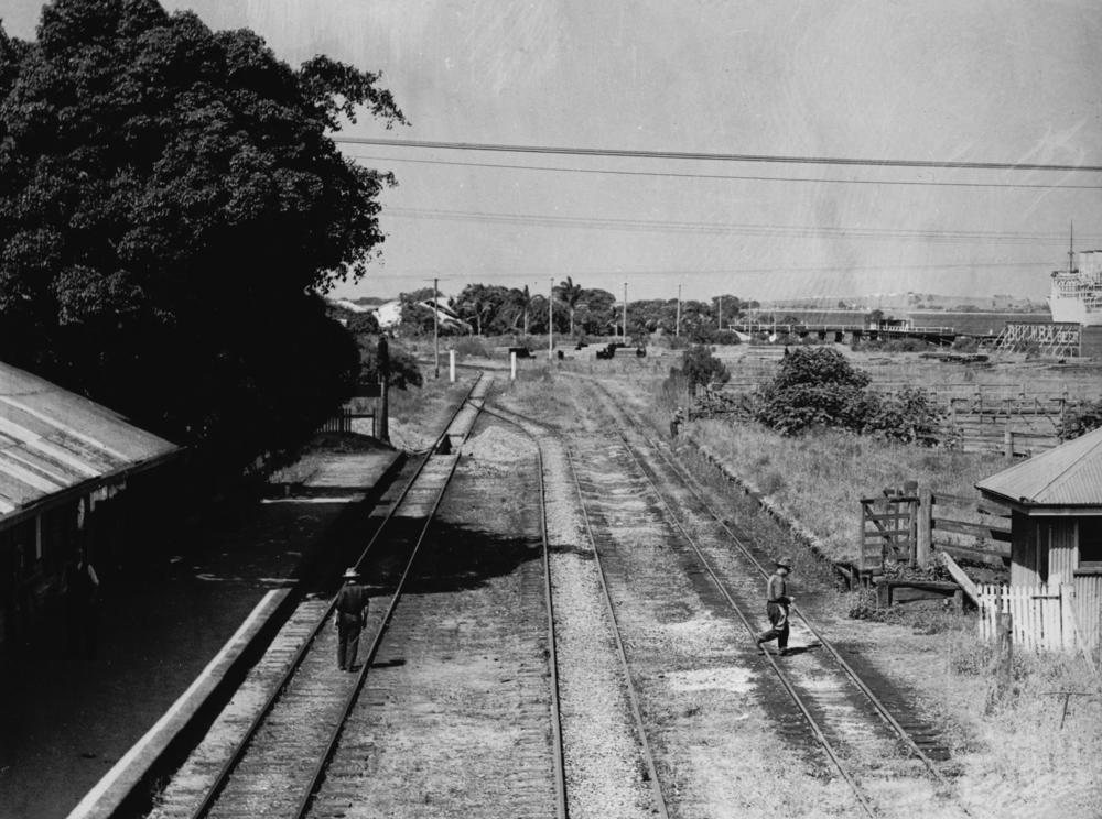 Pinkenba Railway Station, Brisbane, ca. 1935 Pinkenba railway served the port of Brisbane at the time.